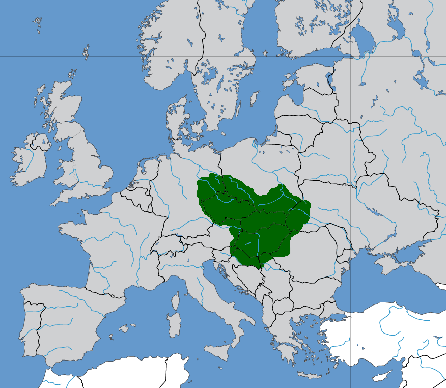 Great Moravia at its greatest extent during the reign of Svatopluk I